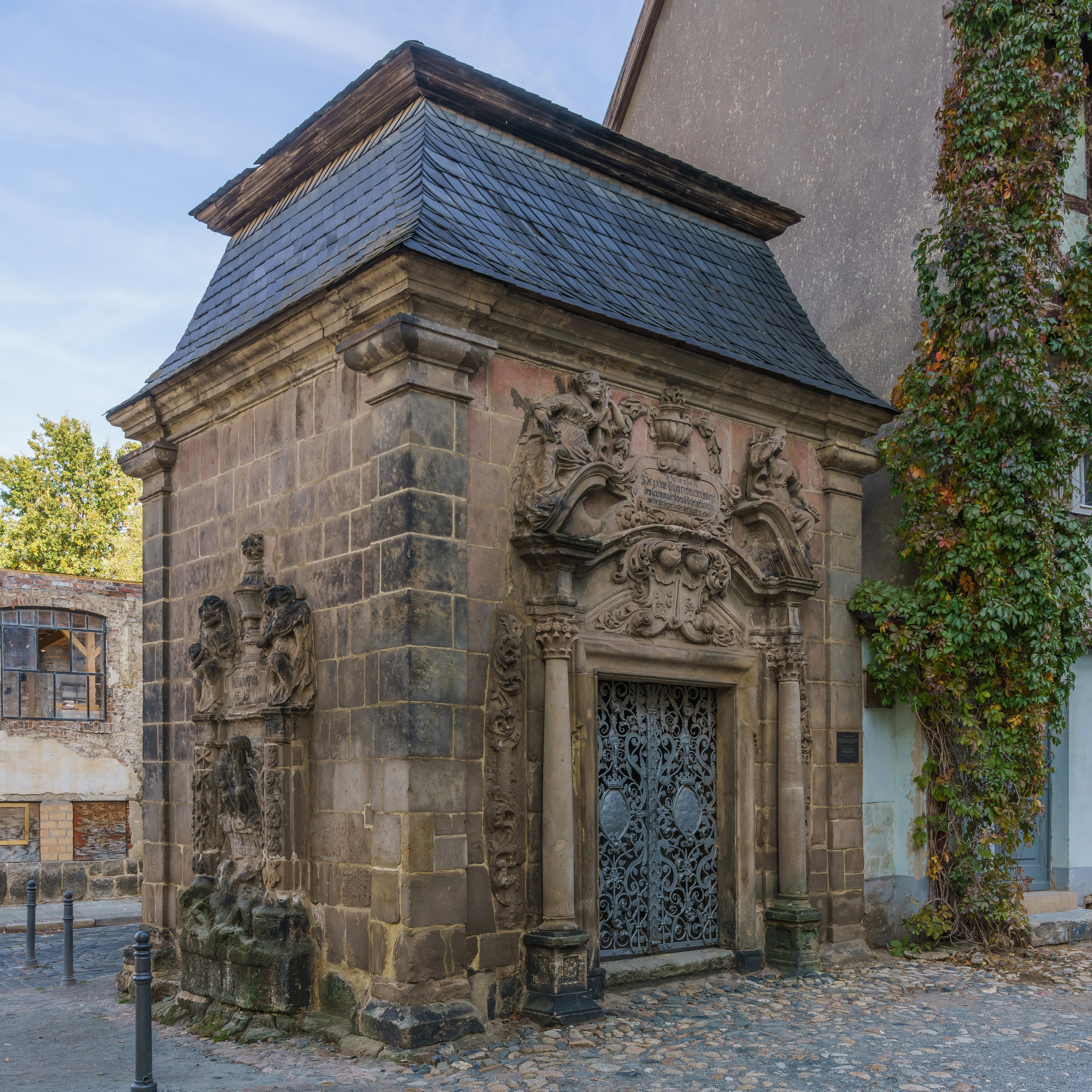 Baroque mausoleum in the Old Town in Quedlinburg, Germany